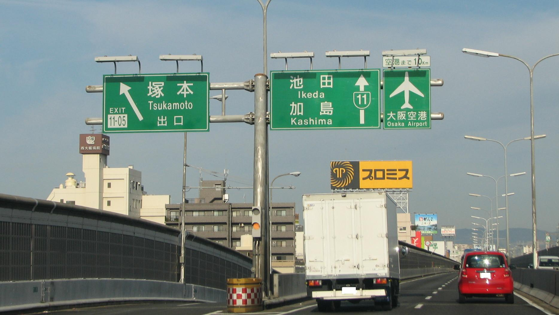 Hanshin Expressway Tsukamoto IC